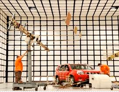 Ensayos de compatibilidad electromagnética de vehículo completo en cámara semi-anecoica.